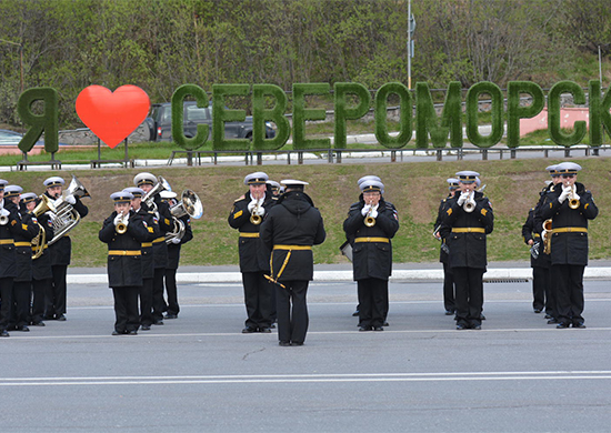 The band of the Northern Fleet of the Russian Federation.